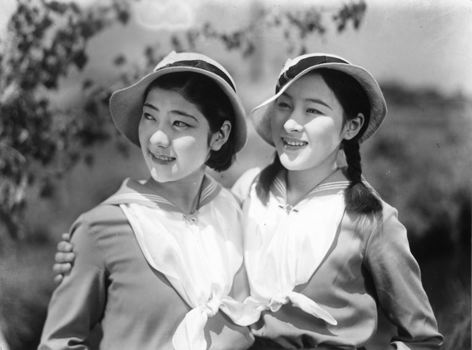 Sanae Takasugi and Yumeko Aizome in Tonari no Yae-chan (1934)